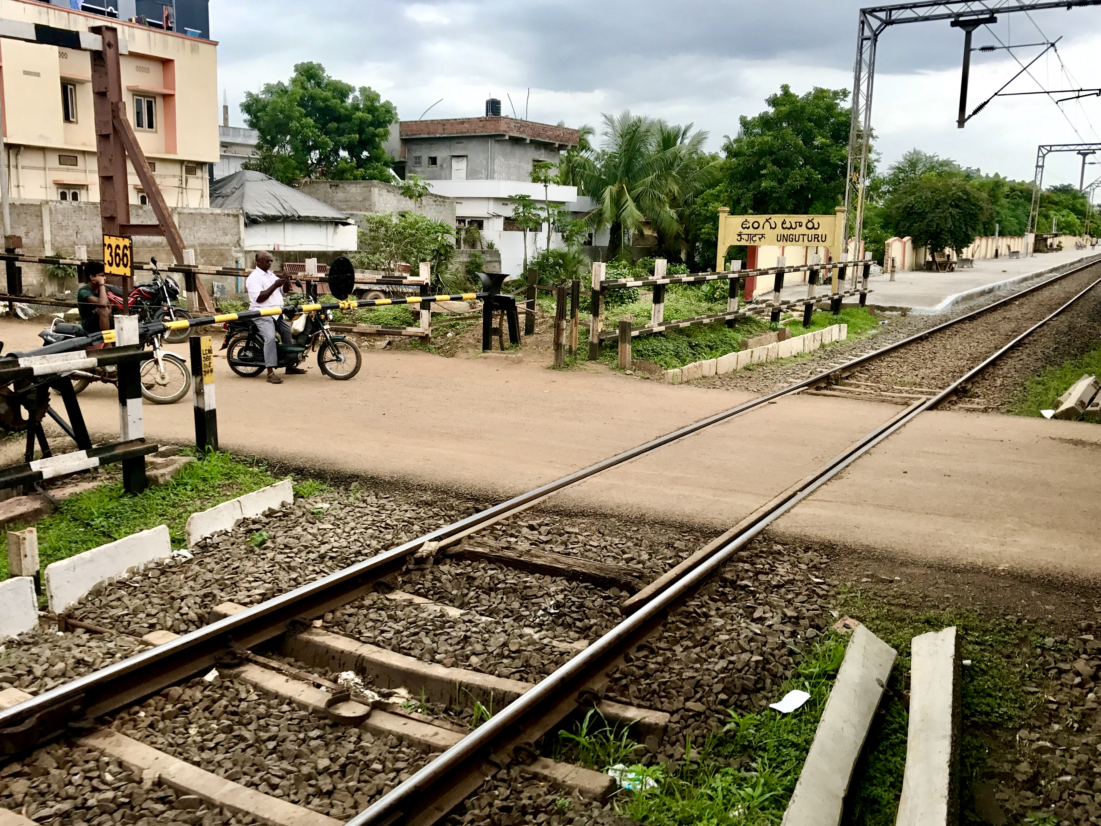 Unguturu railway station board